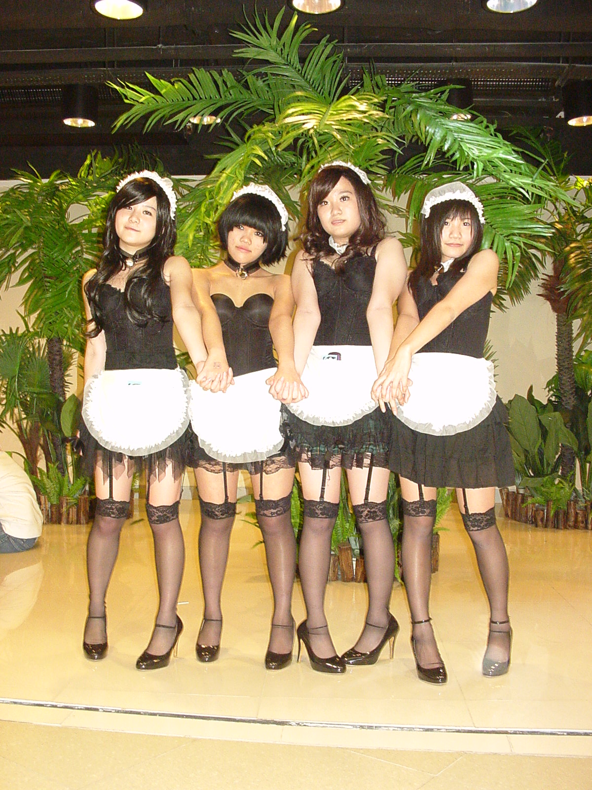 Japanese style French maid cosplay in 27th Comic World Hong Kong